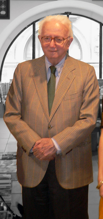 Enzo Biagi, cropped from Surya con Enzo Biagi e la mamma